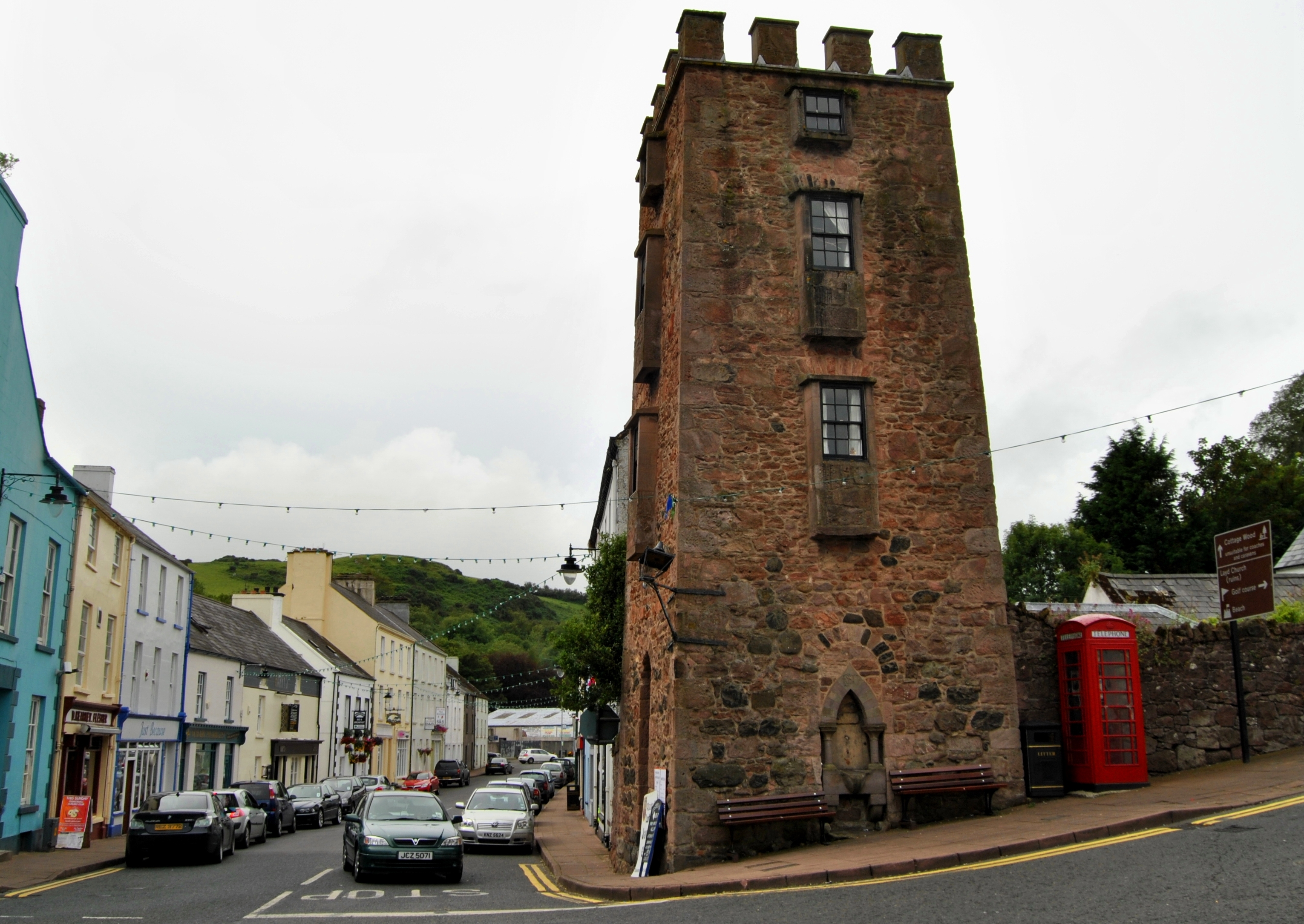 Cushendall